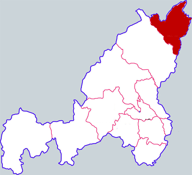 Location of Fugu county in Yulin city, Shaanxi province, China